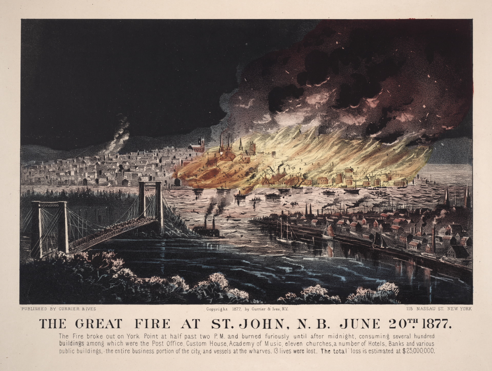 From the Toronto Public Library website:Publisher: Currier & IvesMedium: Lithograph, water colour and touches of gum arabic on wove paper. Laid down on cardboard Dimensions: 241 x 325 mm. (with text); Sheet (trimmed) 320 x 417 mmDate: 1877Notes: Catalogued Nov 19 1986; Reps 2188; Jefferys 613Rights and Licenses: Public Domain Provenance: Gift of J. Ross RobertsonBranch: Toronto Reference LibraryLocation: Baldwin Room Call Number / Accession Number: JRR 44 Cab II Inscribed on the stone, lower left: PUBLISHED BY CURRIER & IVES lower center: Copyright 1877, by Currier & Ives, N.Y. lower right: 115 NASSAU ST. NEW YORK bottom: THE GREAT FIRE AT ST. JOHN, N.B. JUNE 20TH 1877. The Fire broke out on York Point at half past two P.M. and burned furiously until after midnight, consuming several hundred buildings among which were the Post Office, Custom House, Academy of Music, eleven churches, a number of Hotels, Banks and various public buildings, the entire business portion of the city, and vessels at the wharves. 13 lives were lost. The total loss is estimated at $25,000,000.